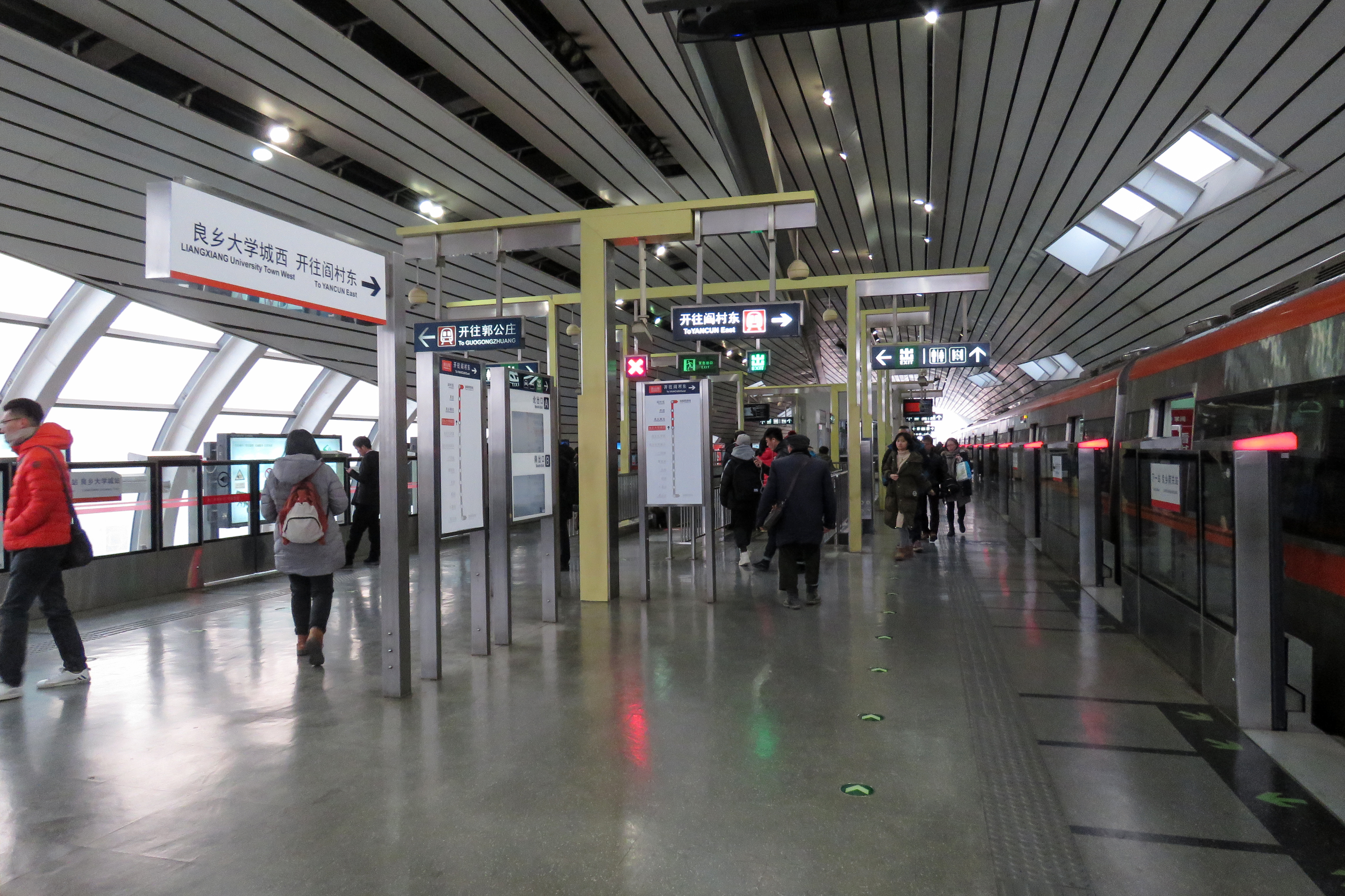 Golden pillars? Not so shiny.